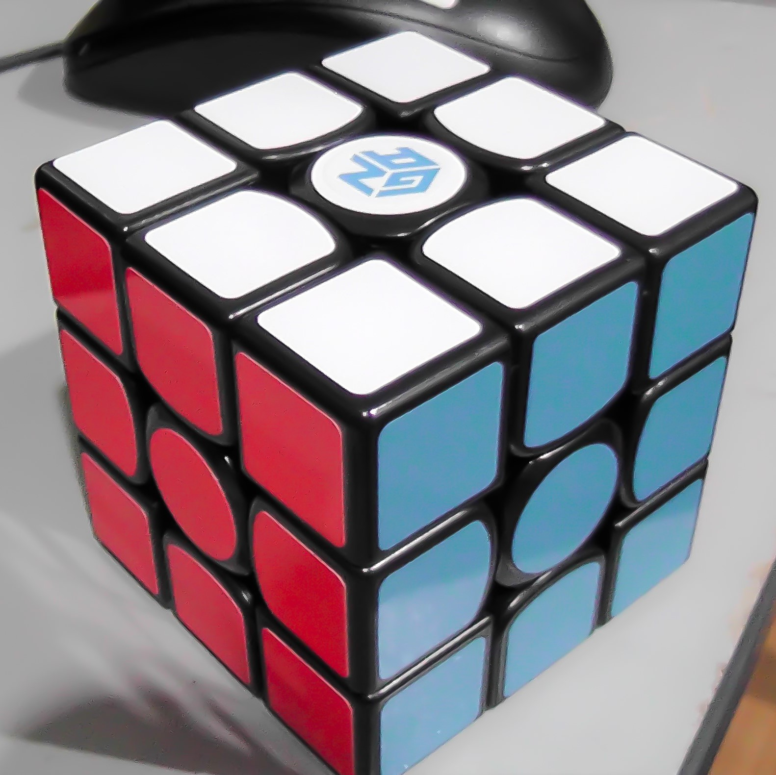 Gan 356 Air speedcube by Gan.